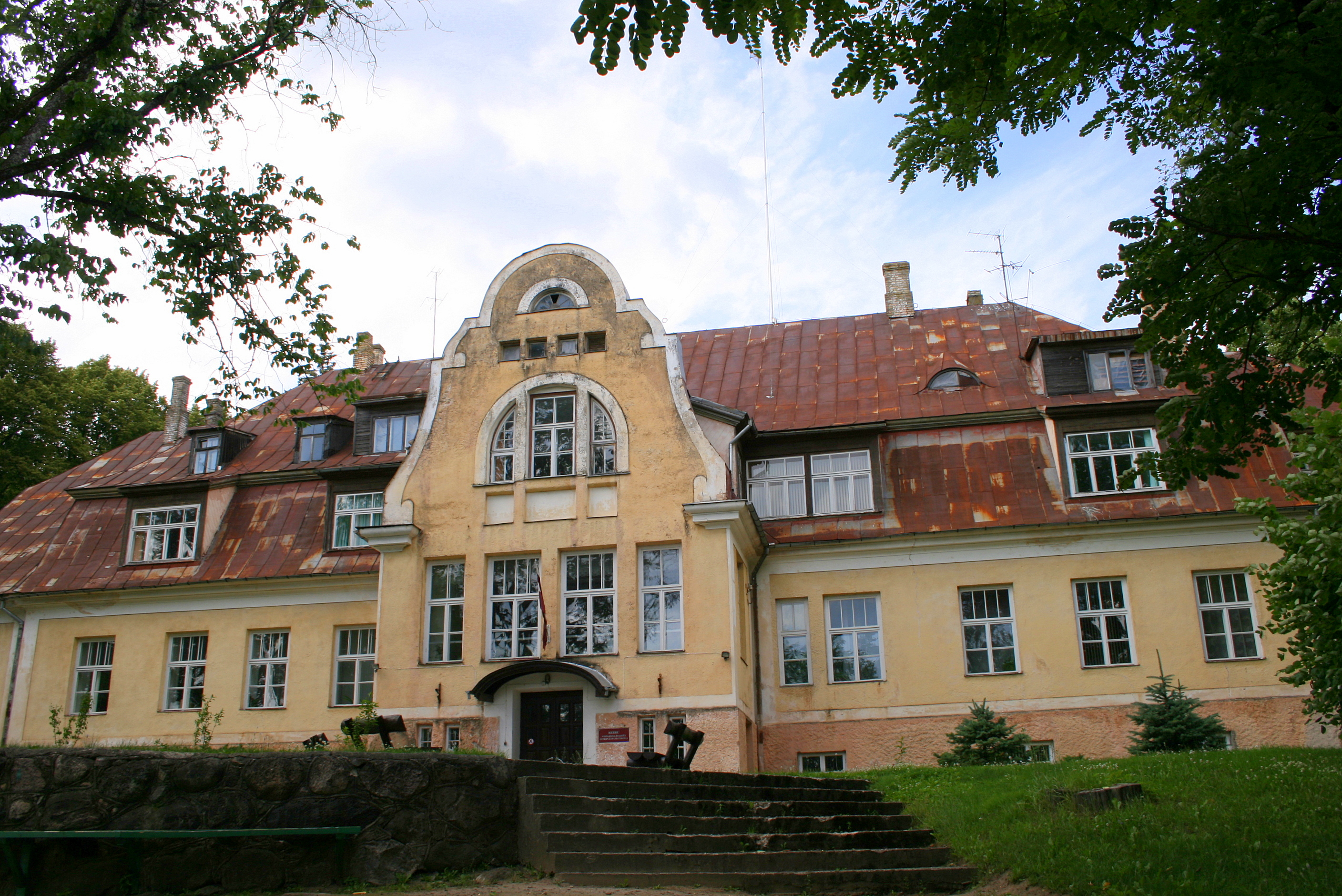 Vecbebri ManorLatviešu: Vecbebru muižas pils